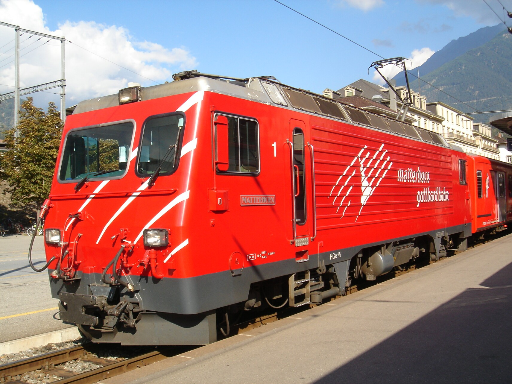 MGB HGe 4/4" 1 ex-BVZ in new MGB livery in Brig